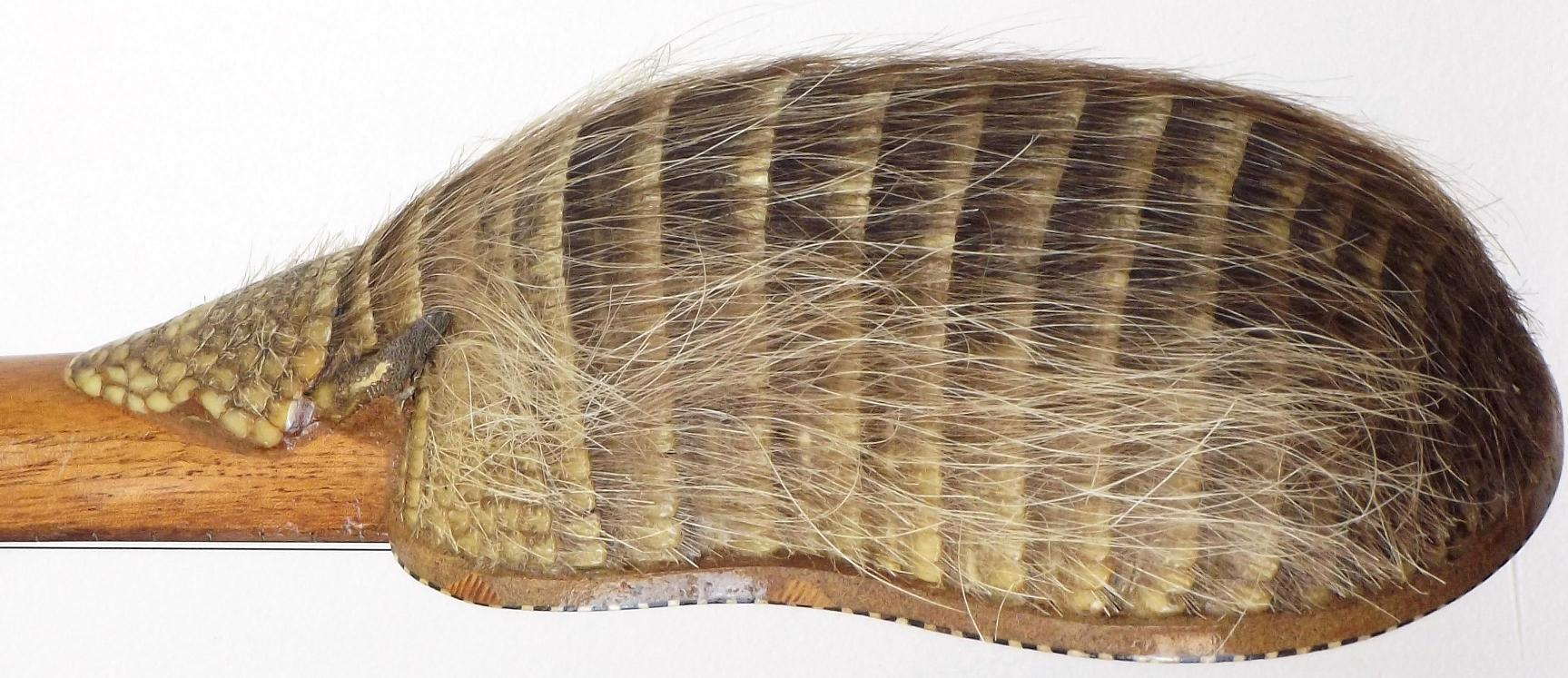 10 string 5 course Andean folk Chordophone this one was made in Bolivia and in the traditional manner of Using the carapace of a 9 Banded Armadillo for the body of the instrument